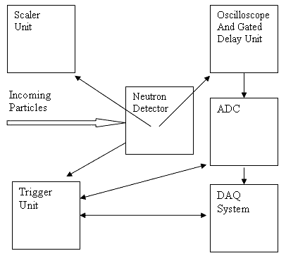 Author: Medina, M. A., Schwille, P. BioEssays 24, 758-764. Source: Their creation